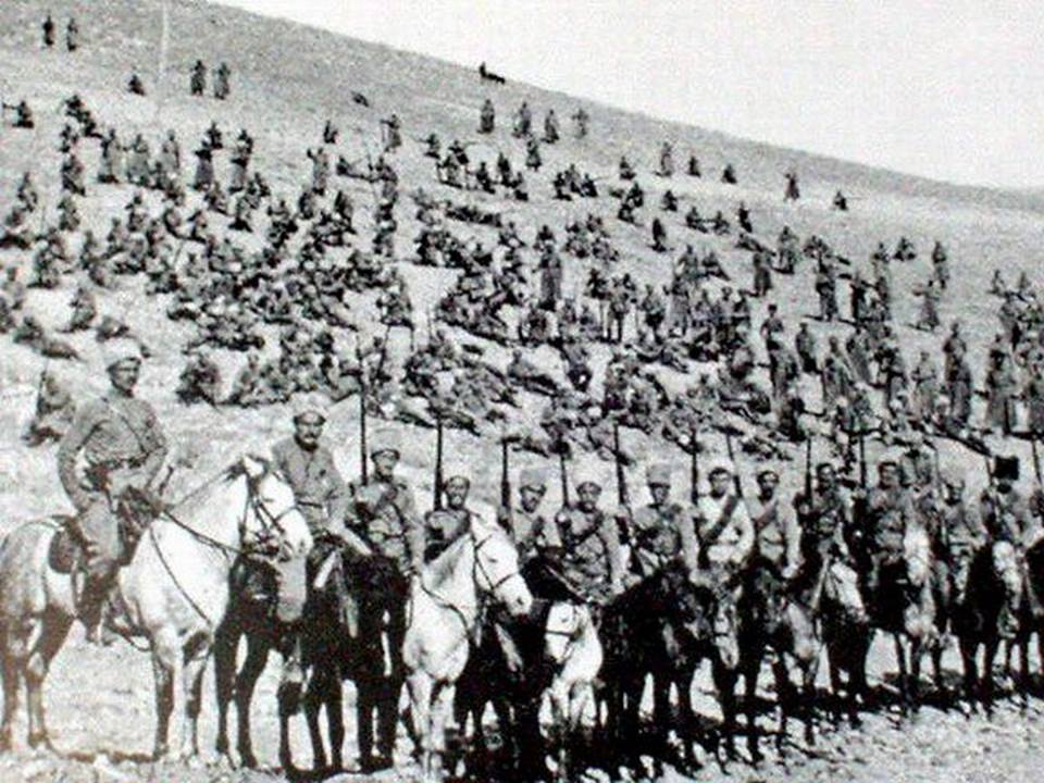 1918 Armenian volunteer soldiers defending the Armenian border from the Turkish plans of continued genocide.